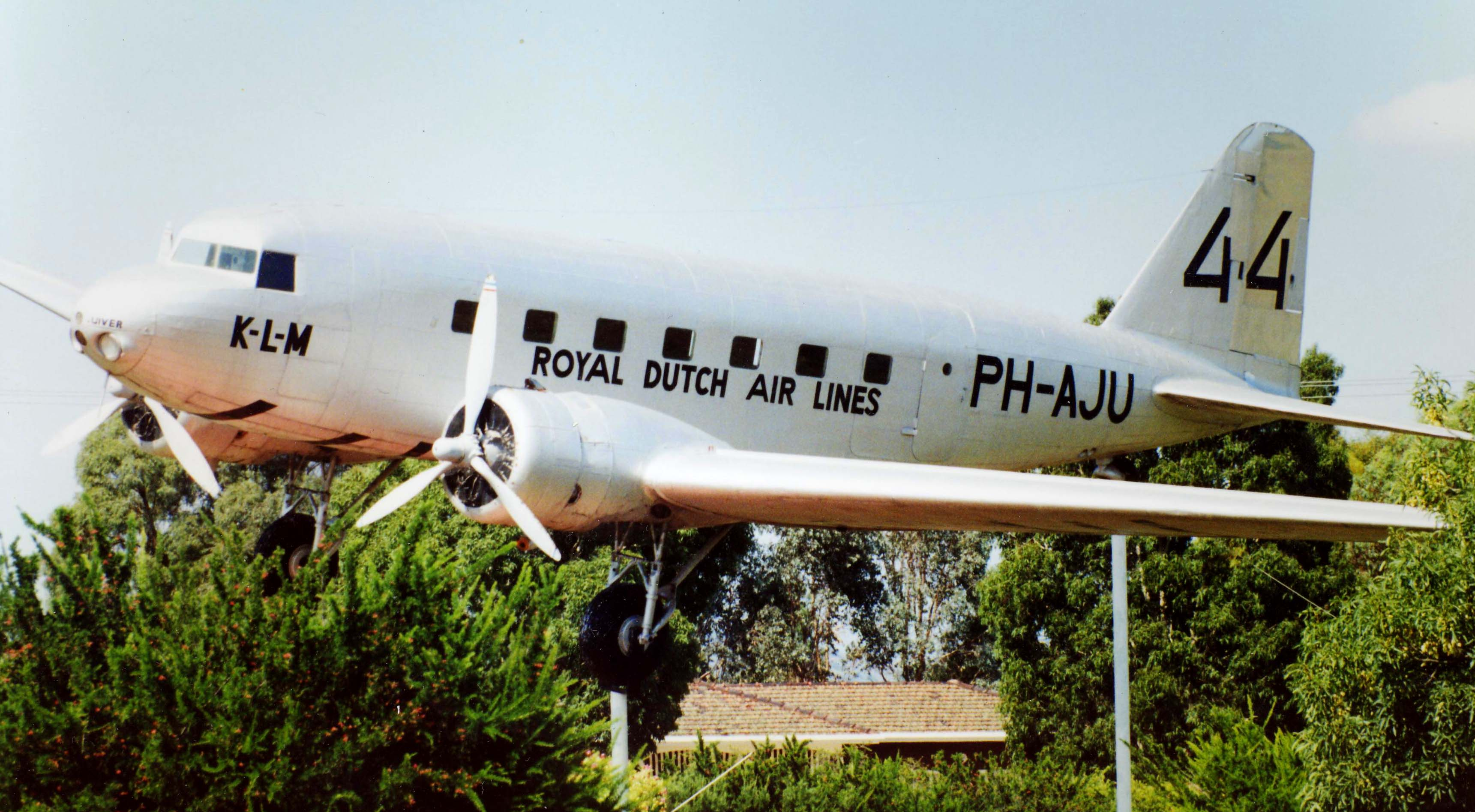 This is an ex RAAF aircraft painted up as the KLM aircraft that landed here when lost at the end of the 1934 London to Melbourne air race.DC2 at Albury, NSW